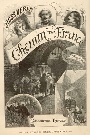 Original ilustration by Georges Roux for Jules Verne's novel "The Flight to France".